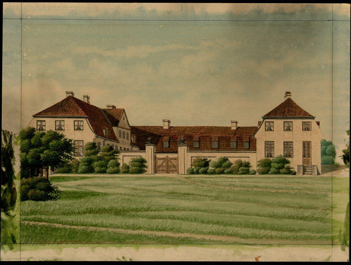 The property Mariaslyst om Vesterbrogade in Copenhagen as ween from the east. The house was originally built by Wulf Pedersen Holm. It was owned by Ole Johannes Wingsyrup in 1812-1861. He established a machine factory that specialized in the construction of agrivultural machinery at the site. He constrcted a steam mill at the site in 1830.